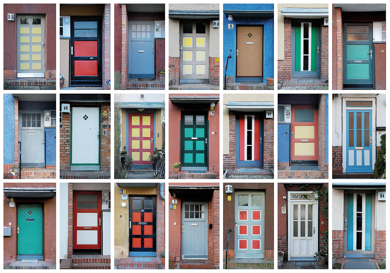 UNESCO World Heritage "Hufeisensiedlung" estate in Berlin-Britz, color and construction details of the various types of doors, 2011; for higher resolution or commercial purposes please contact the author .